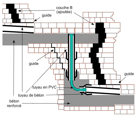 A sketch of Borobudur restoration plan in 1973 to improve its drainage system.